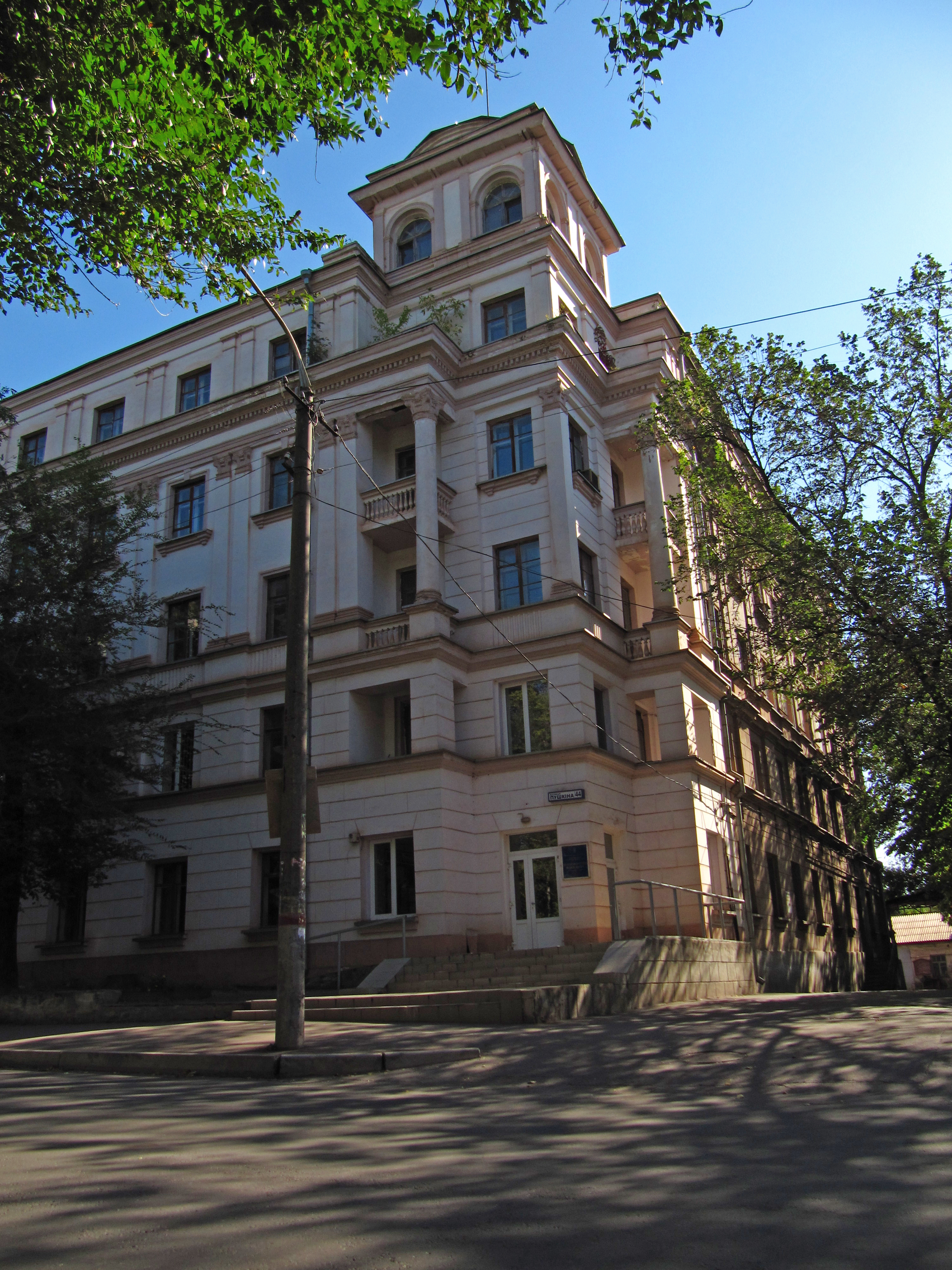 Monument of architecture - administrative building, first 5-floors building in city, Kryvyi Rih, Ukraine